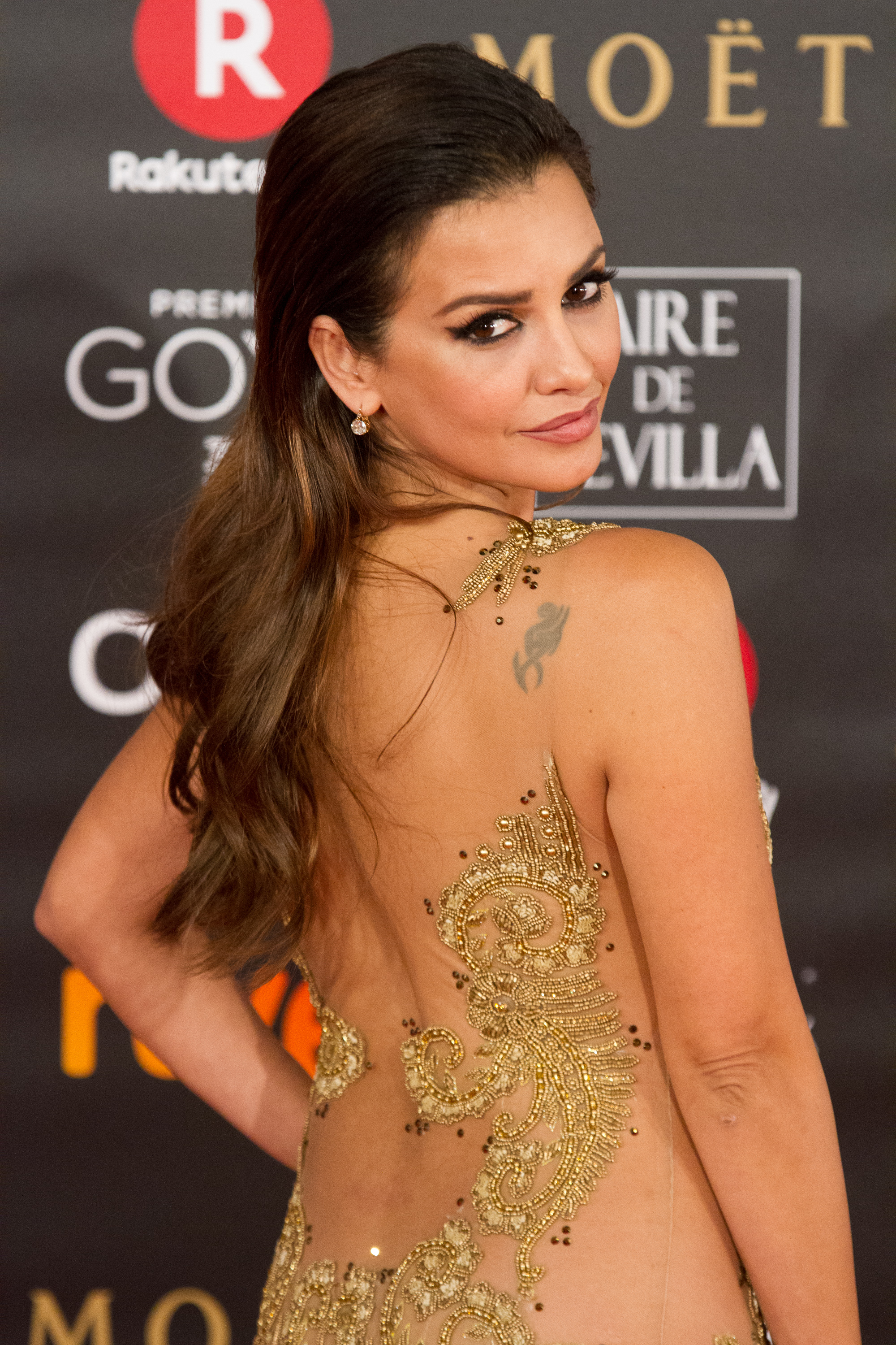 32nd Goya Awards, 2018.